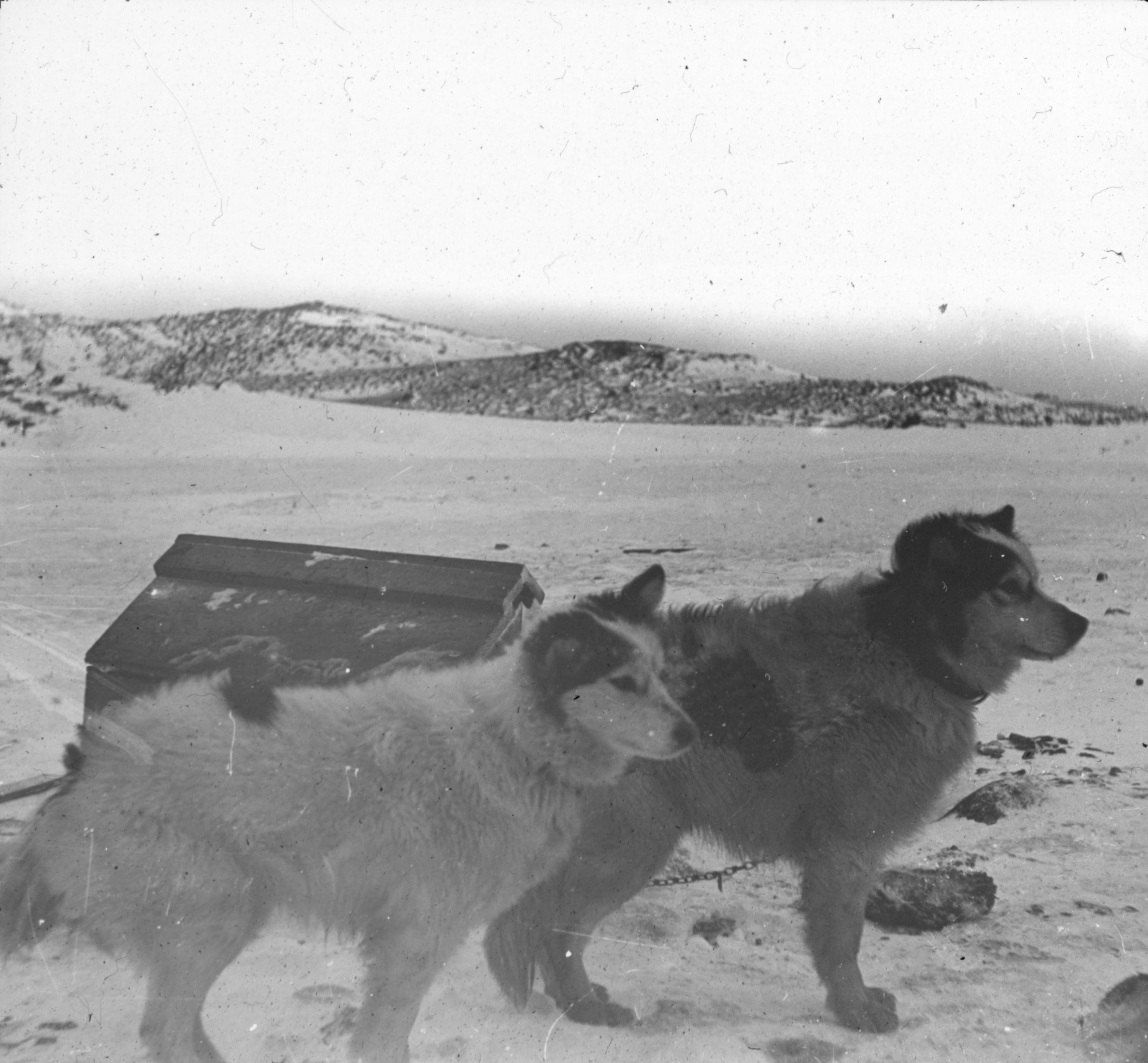 Photographs of the Nimrod Expedition (1907-09) to the Antarctic, led by Ernest Shackleton